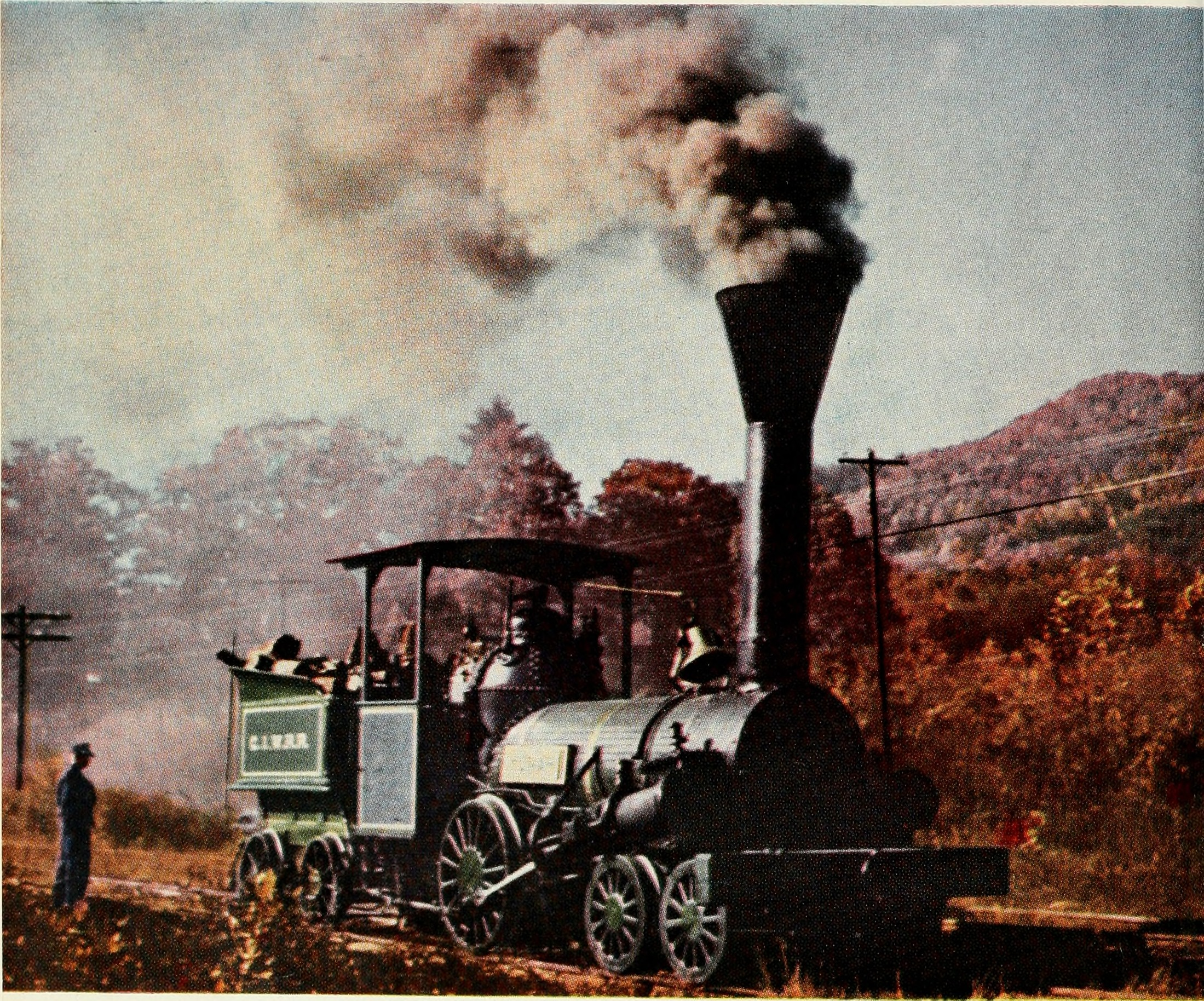 Title: Bulletin - United States National Museum Year: 1877 (1870s) Authors: United States National Museum Smithsonian Institution United States. Dept. of the Interior Subjects: Science Publisher: Washington : Smithsonian Institution Press, (etc.) for sale by the Supt. of Docs., U.S. Govt Print. Off. Text Appearing Before Image: ' Text Appearing After Image: Photo by Thomas Norrell Replica of the Lafayette (see p. 58) as it appeared in the fall of 1955, during the making of a motion picture in northern Georgia. For the picture, which was based on the story of the famous Civil War locomotive General (see p. 84), this One-Armed Billy of the 1830s was disguised as the Yonah, of the Cooper Iron Works Rail Road, and is shown here as it was operating on the Tallulah Falls Railway. (Color plate contributed by Thomas Norrell.) Circ - United States National Museum Bulletin 210